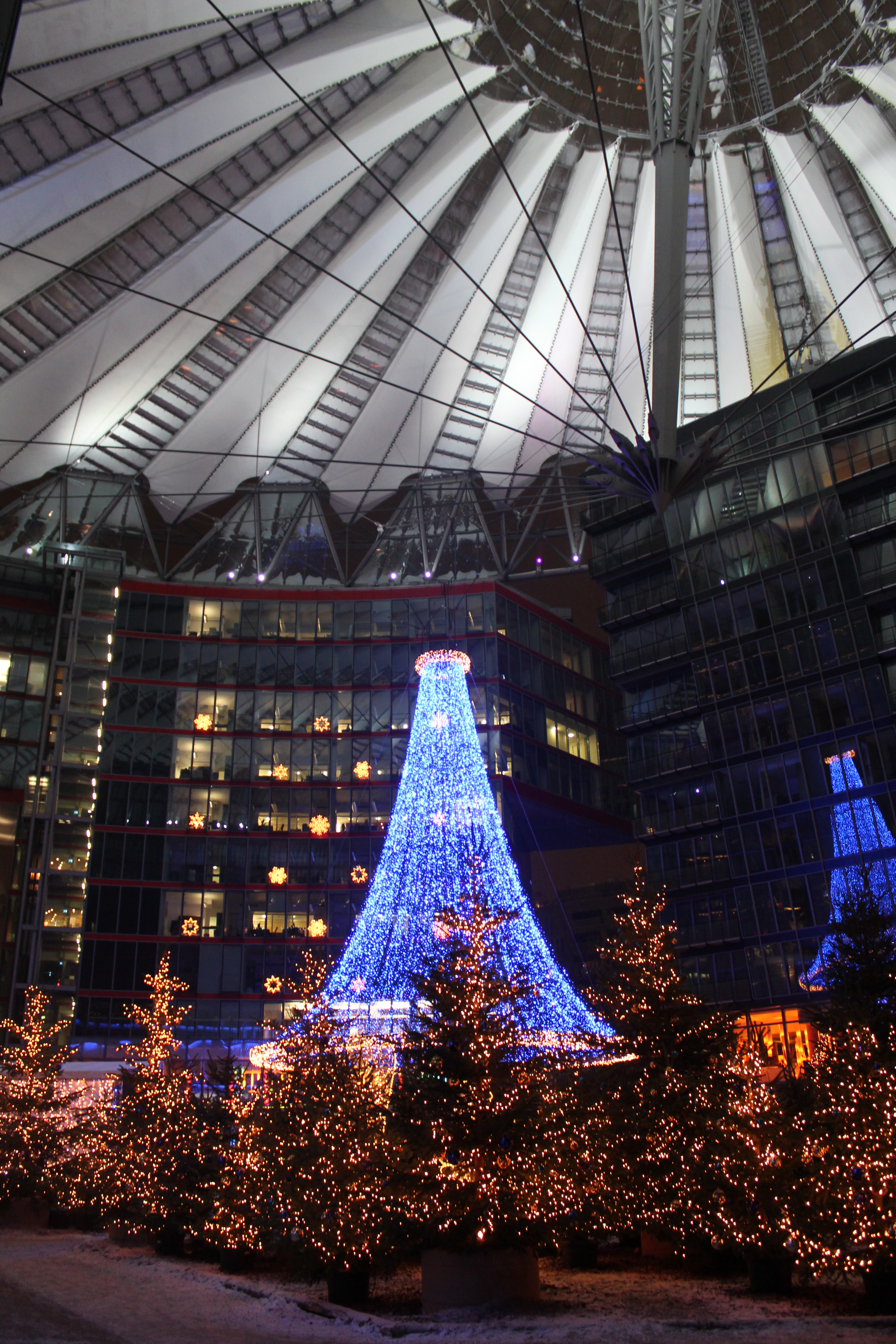 Sony Center Berlin in winter